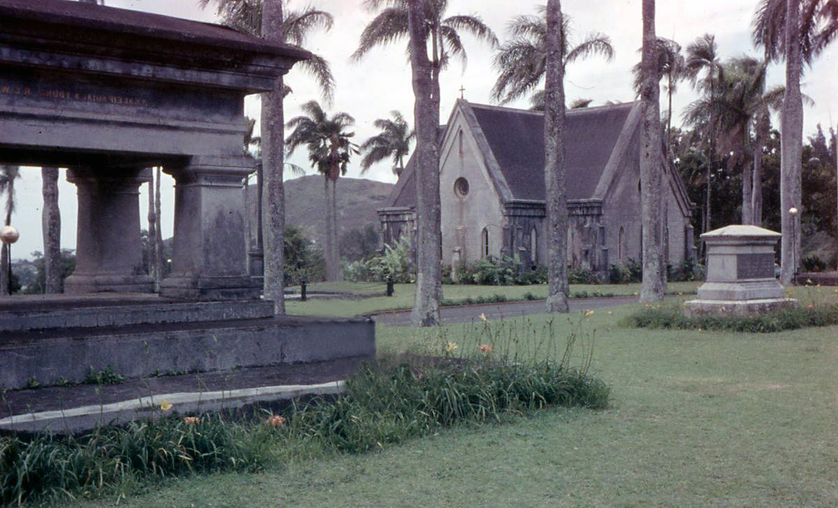 Royal Mauseoleum, Hawaii